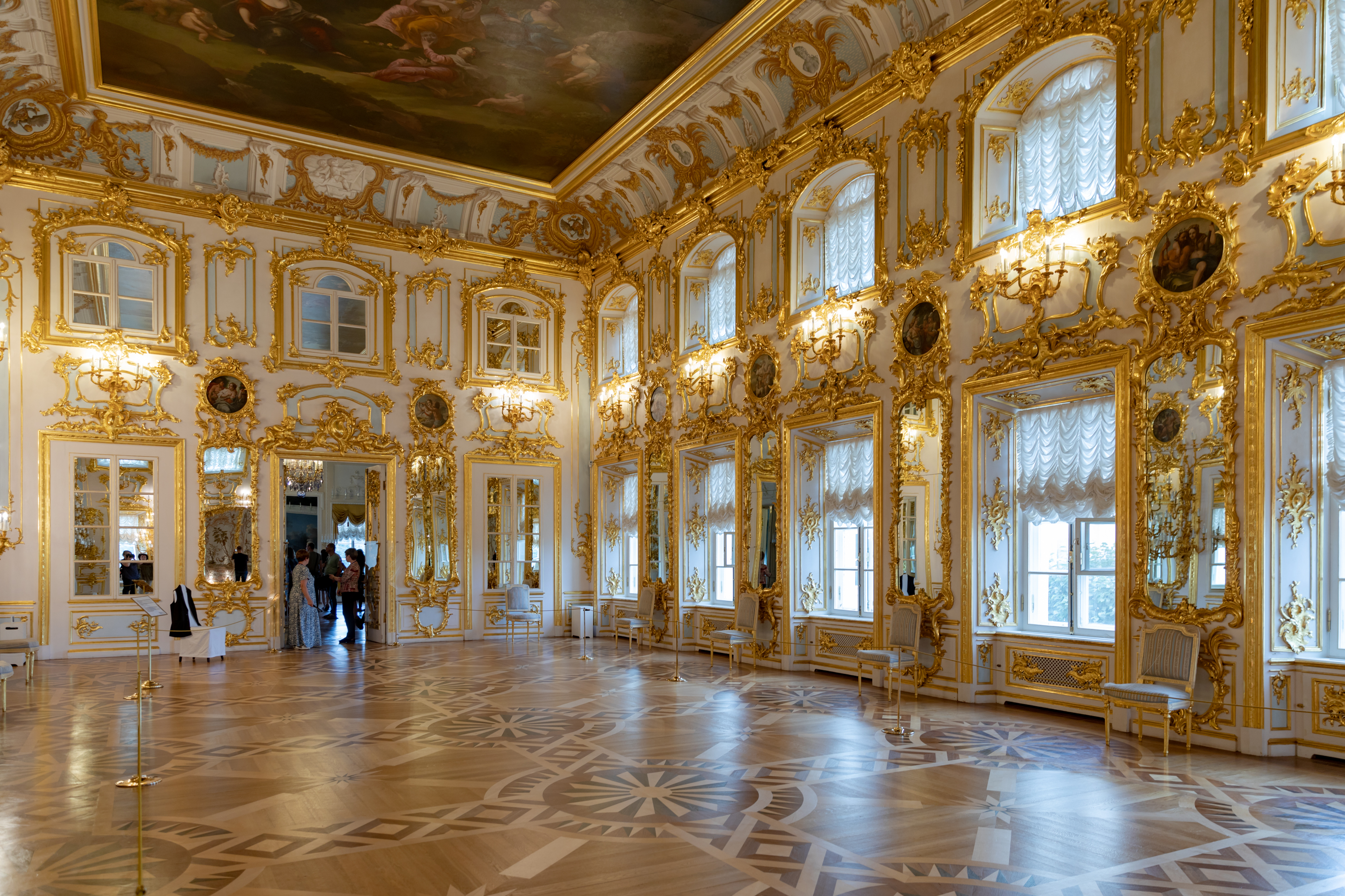 The Peterhof Palace is a series of palaces and gardens located in Petergof, Saint Petersburg, Russia, laid out on the orders of Peter the Great. These palaces and gardens are sometimes referred as the "Russian Versailles". The palace-ensemble along with the city center is recognized as a UNESCO World Heritage Site. Peter began construction of the palace in 1714 and it was completed in 1725. (Wikipedia)